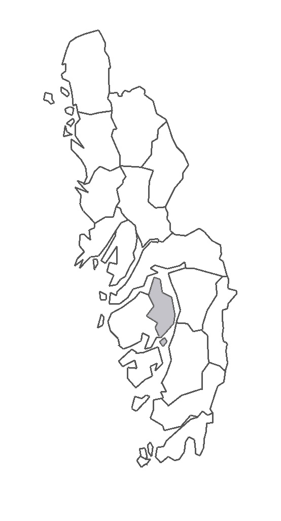 Map describing the location of Orust Eastern Hundred in Bohuslän Province, Sweden.